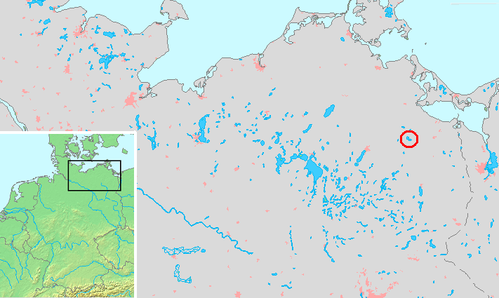 Locator maps of lakes in Germany : Location Galenbecker See.PNG